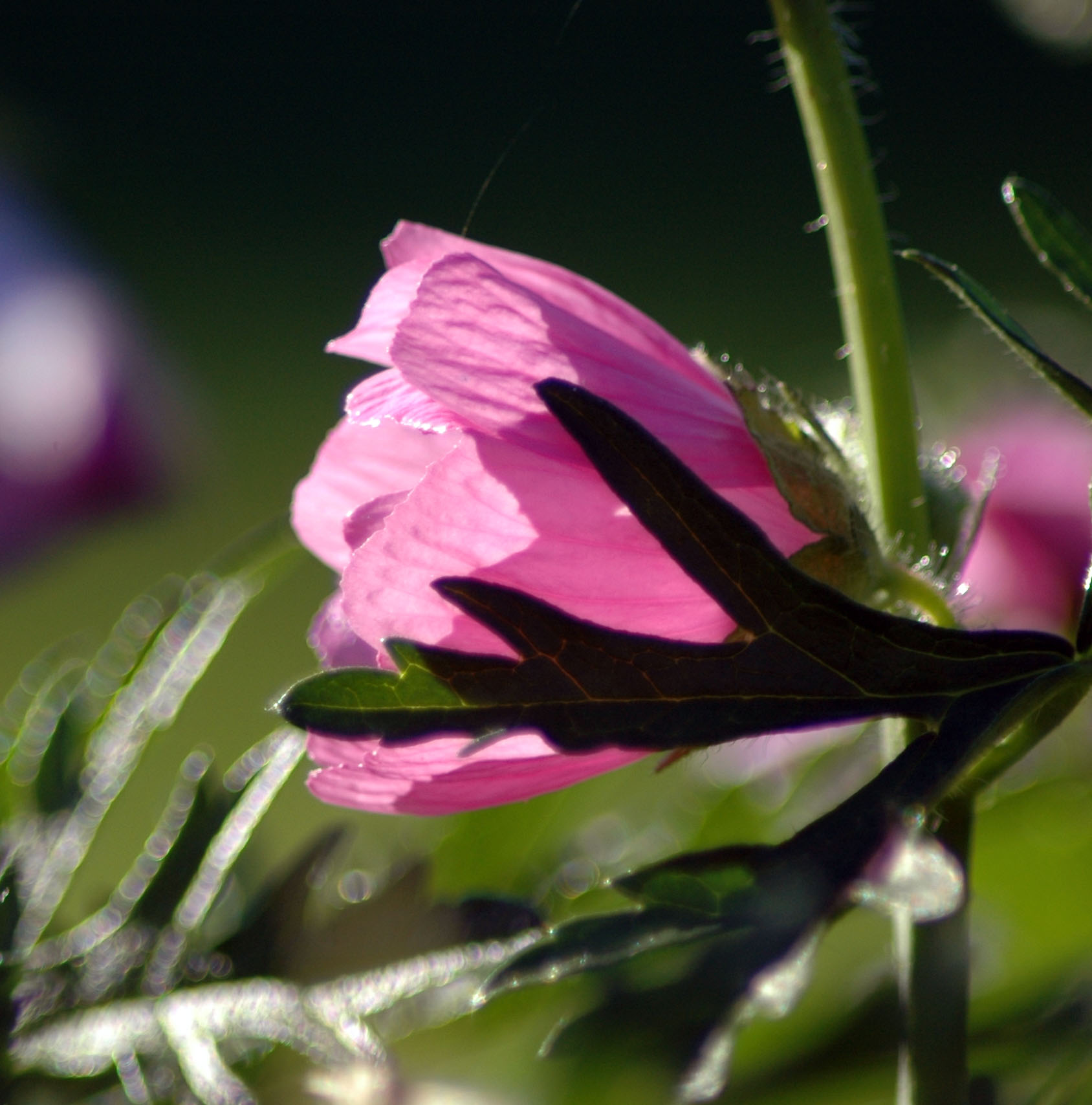 A pink malva-flower